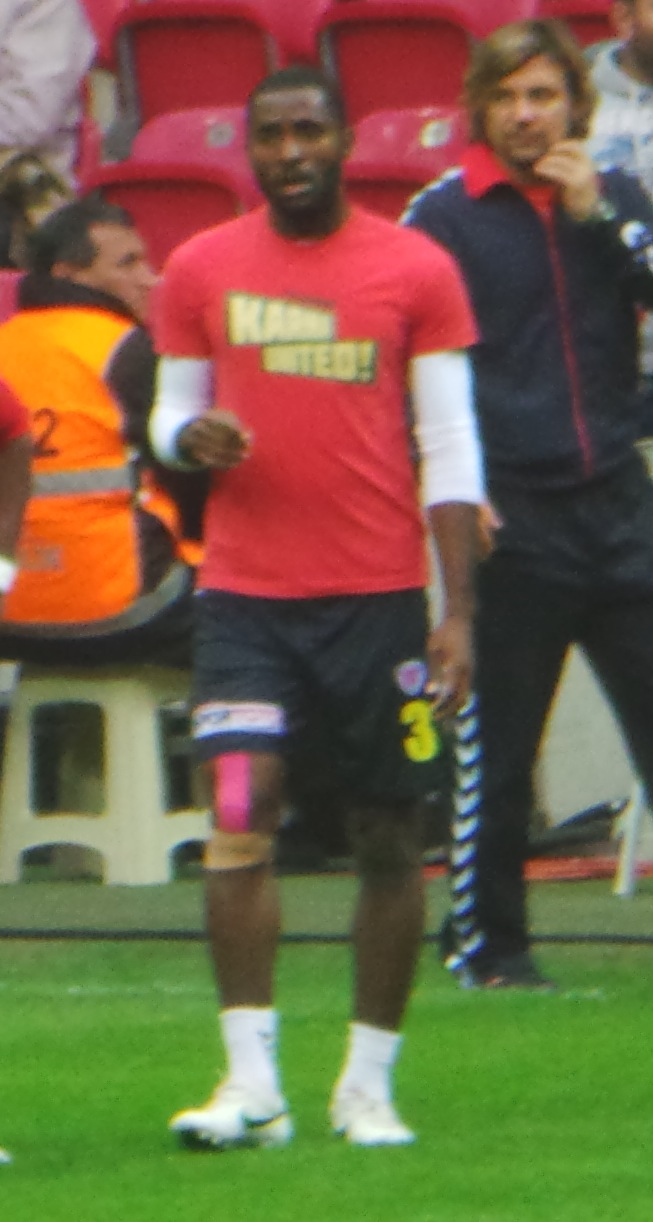 Boum MİY